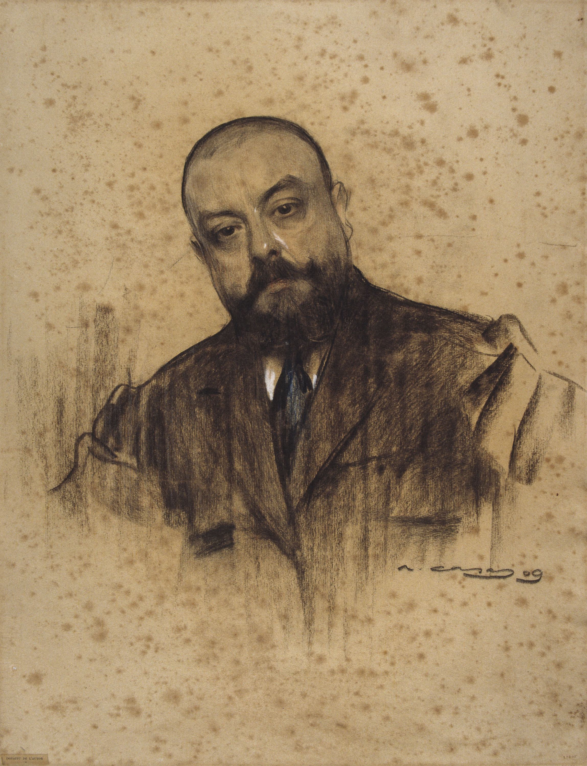 Portrait by Ramon Casas conserved at MNAC in Barcelona. Imagen 089